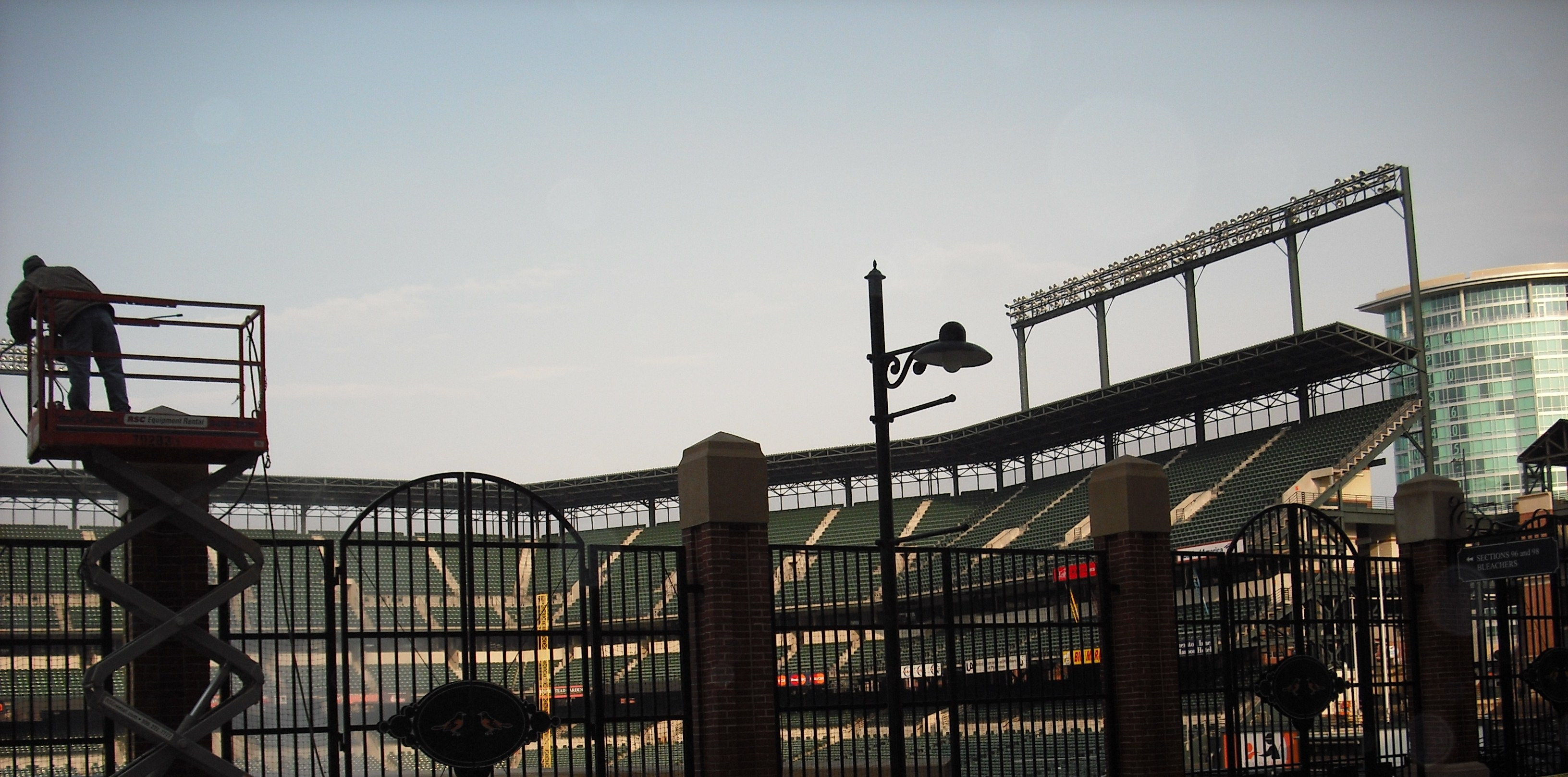 Camden Yards